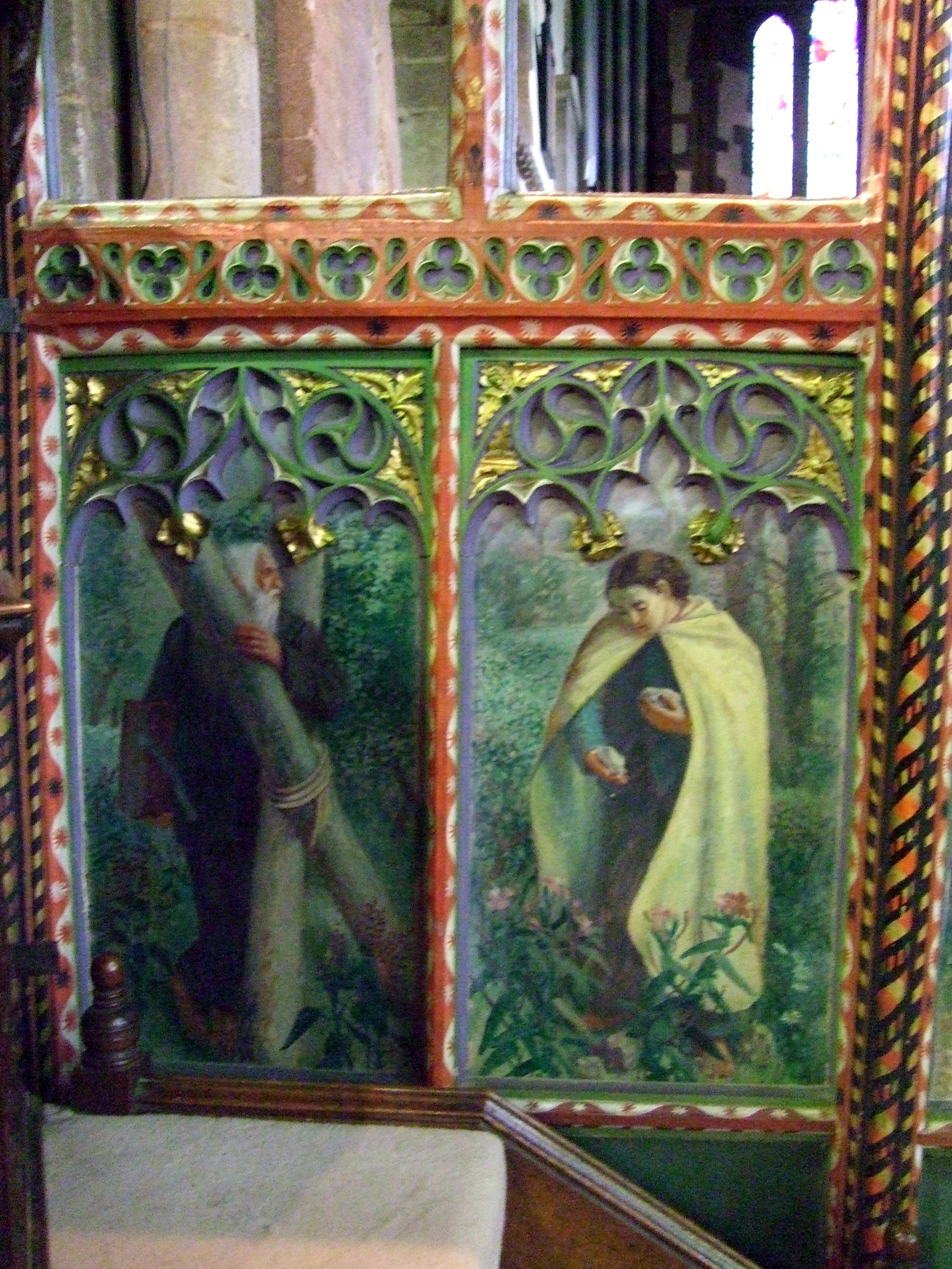 Photograph of a painting by Henry Bird in 1932 on a panel of the rood screen depicting St Andrew and St Stephen in All Saints Church, Earls Barton, Northamptonshire.